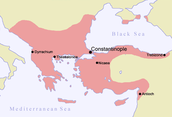 Map of Byzantine Empire ca 1180, before the 4th Crusade.